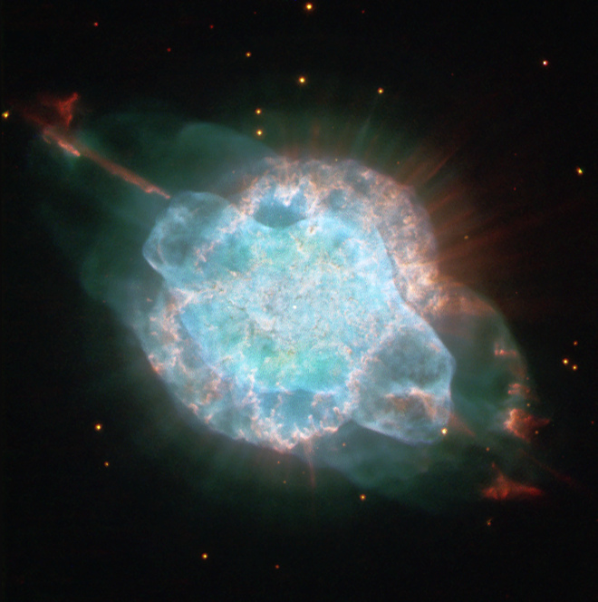 NGC 3918 is one of the more complex planetary nebulas. If we could see a ten-thousand year movie of it we could understand it a bit better. Too bad that's impossible. If you find a young planetary nebula you could start now and have many subsequent generations of humans continue to perform the task, supposing that they care enough about it and have the necessary resources. I have a hard enough time looking at just twenty years of archival data. I can't even begin to imagine ten-thousand years. I had to significantly dim the bright center to reveal all the knots around the core. Red: hst_06119_18_wfpc2_f814w_pc_sci + hst_11122_08_wfpc2_f658n_pc_sci Green: hst_06119_18_wfpc2_f555w_pc_sci + hst_11122_08_wfpc2_f656n_pc_sci Blue: hst_11122_08_wfpc2_f502n_pc_sci North is NOT up.